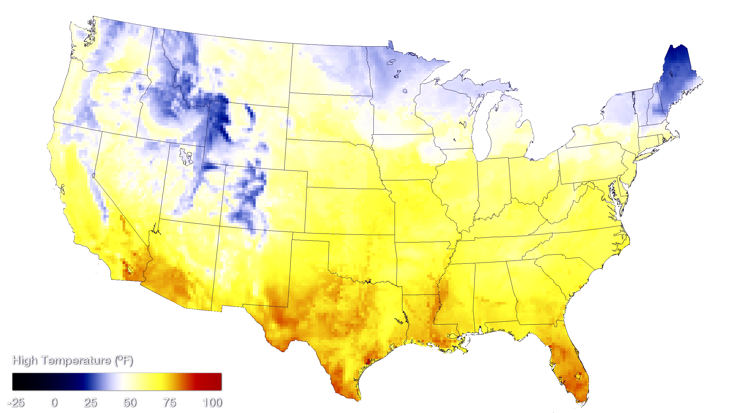 On the last day of January, many people throughout the U.S. are enjoying unusually warm temperatures. Shown in this image, using data from today's NOAA Rapid Update Cycle model, are the high temperatures across the U.S. Many areas are experiencing temperatures well above 50 or 60 degrees Fahrenheit, even in far northern locales.